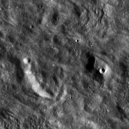 LROC . Seems that a crater Lewis exists under Orientale basin ejecta blanket.